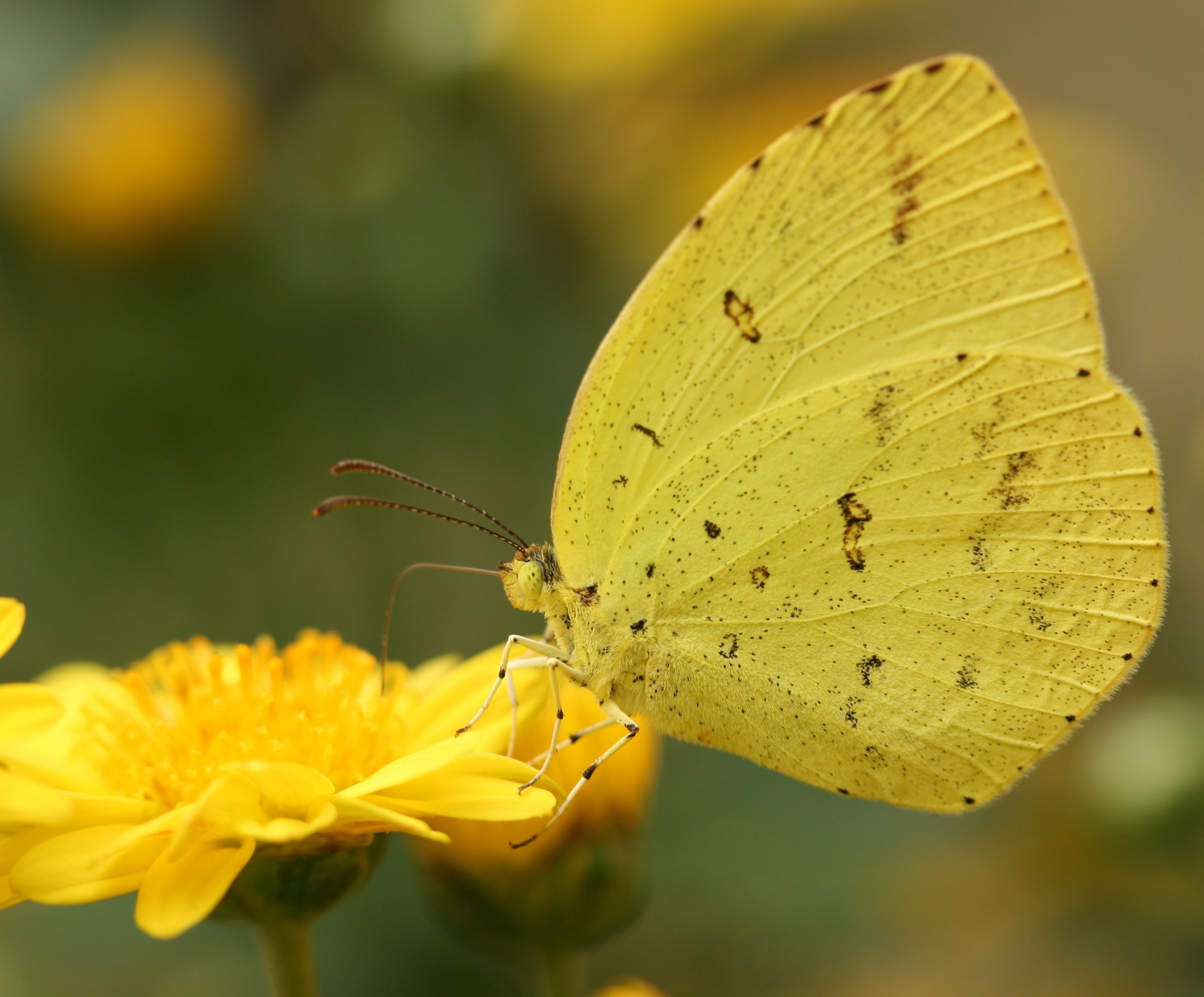 Eurema hecabe (Eurema mandarina) inhaling the honey of chrysanthemum, in Japan.